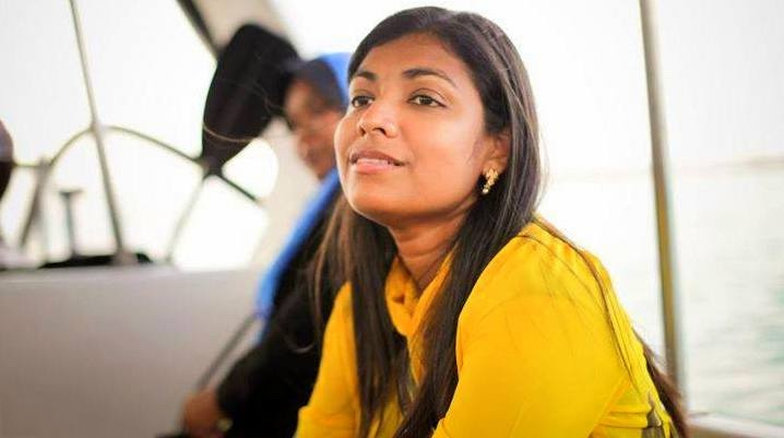 Rozeyna